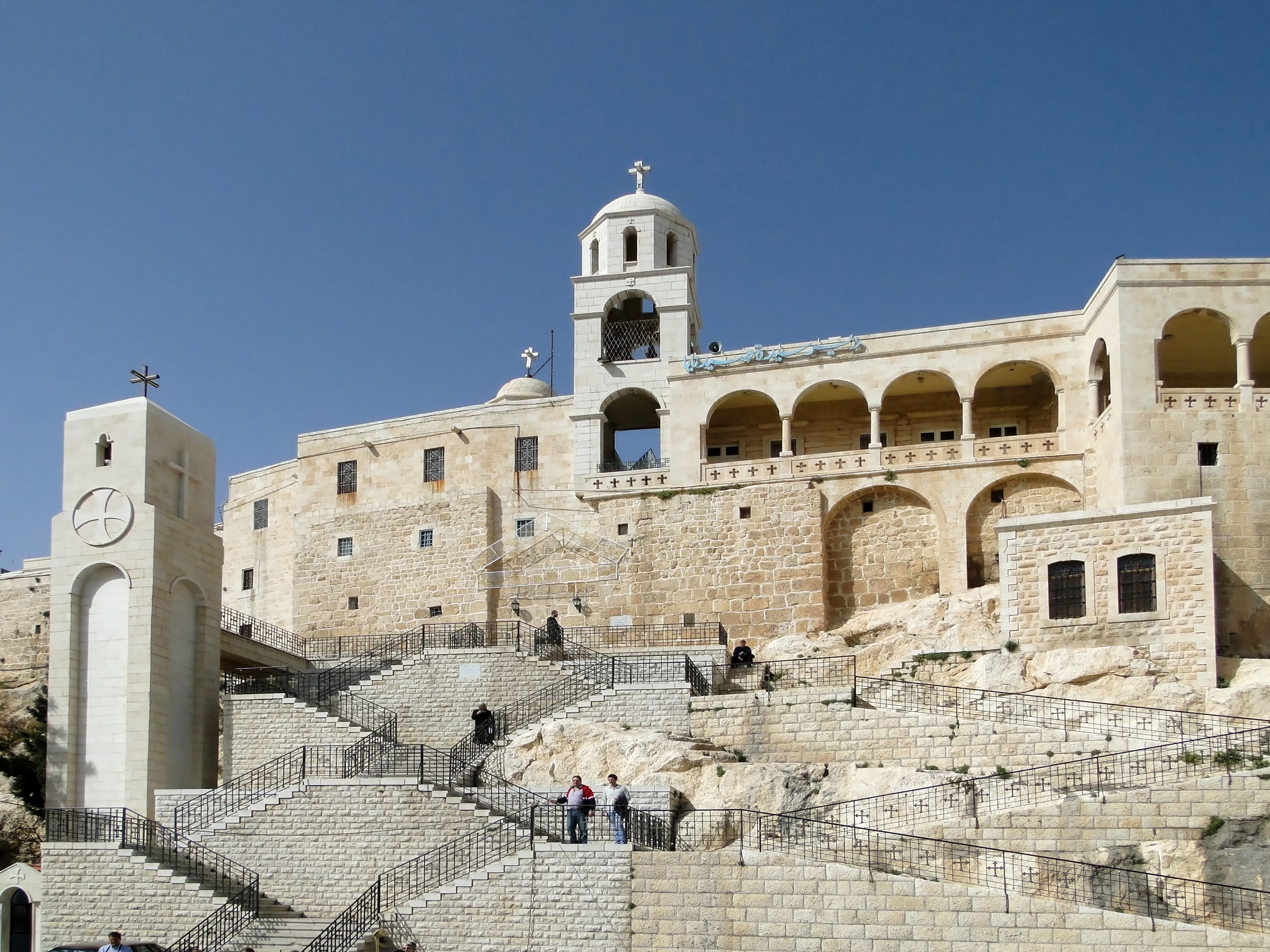 Convent of Our Lady of Saidnaya, Saidnaya, Syria